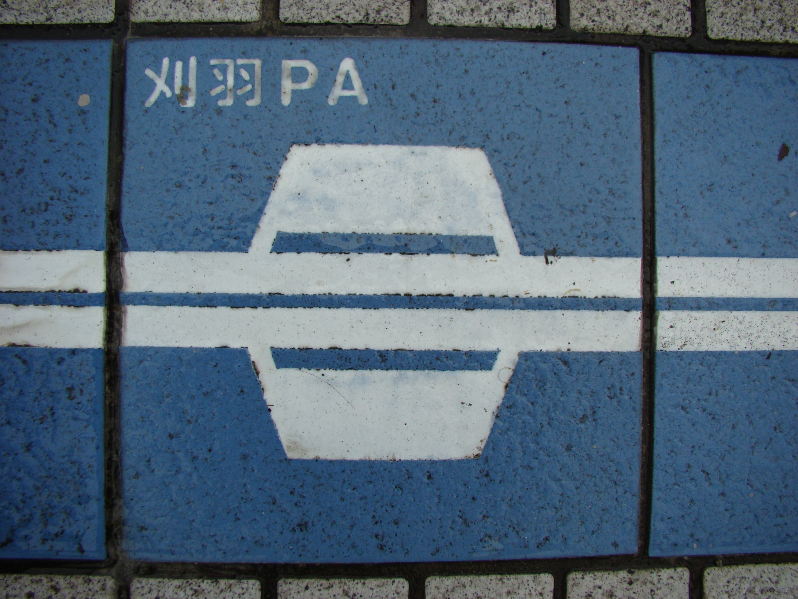 The tile which designed a shape of the Kariwa Parking Area（Hokuriku Expressway）（There is this tile in Hokuriku Expressway Nadachi-Tanihama Service Area.）. Place - Chayagahara,Joetsu City,Niigata Prefecture,Japan Date - August 9, 2009 Format - JPEG, 3264x2448pixel, 24bit colors. Photographer - NALA Wiki (talk)